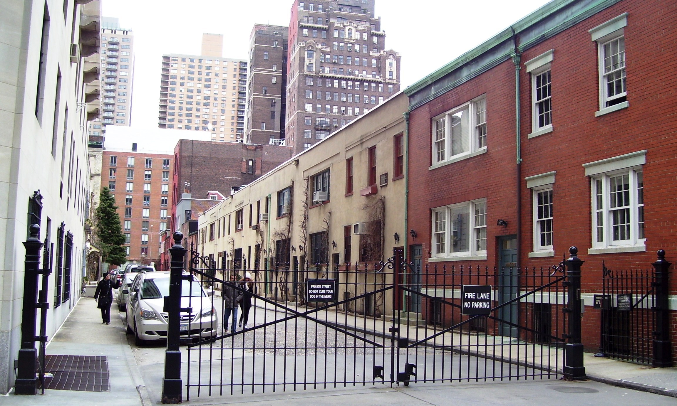 Washington Mews runs between University Place and Fifth Avenue, in the block between Washington Square North and East 8th Street in the Greenwich Village neighborhood of Manhattan, New York City. It is not an official NYC street, but a private way. The north side consists of 19th-century stables which were constructed for the use of the residents of the area, and were converted for other uses in 1916 by Maynicke & Franke. The south side buildings, many of them stuccoed, were put up in 1939. Some of the buildings are used by NYU for their Irish, French and German houses as well as the Institute of French Studies. Wahsington Mews is located within the Grenwich Village Hitsoric District. (Sources: AIA Guide to NYC (4th ed.), NYU Campus map) This view looks east from outside the Fifth Avenue gate; to the right are the south (downtown) buildings, and to the left are the north (uptown) buildings.